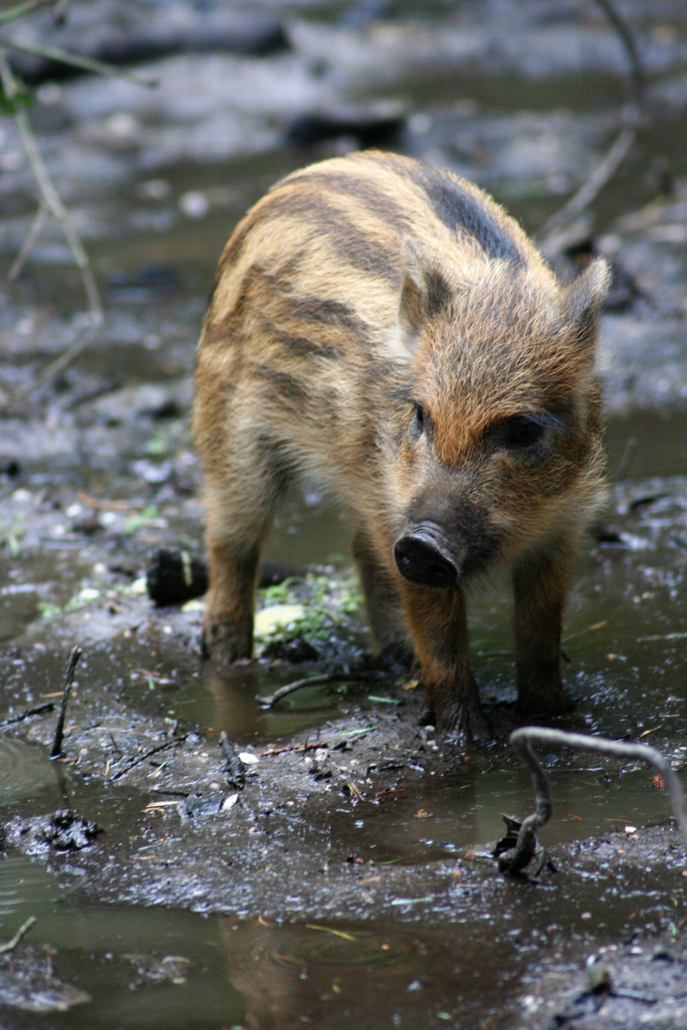 Wild boar (Sus scrofa), at the New Forest Otter, Owl and Wildlife Park (Hampshire, England).